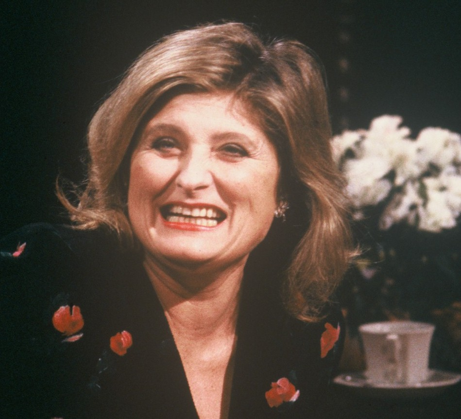 Gaia Servadio hosting After Dark on 11 March 1988, "You Are What You Wear"